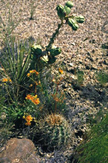 Yucca baileyi, Sclerocactus whipplei ssp. cloverae